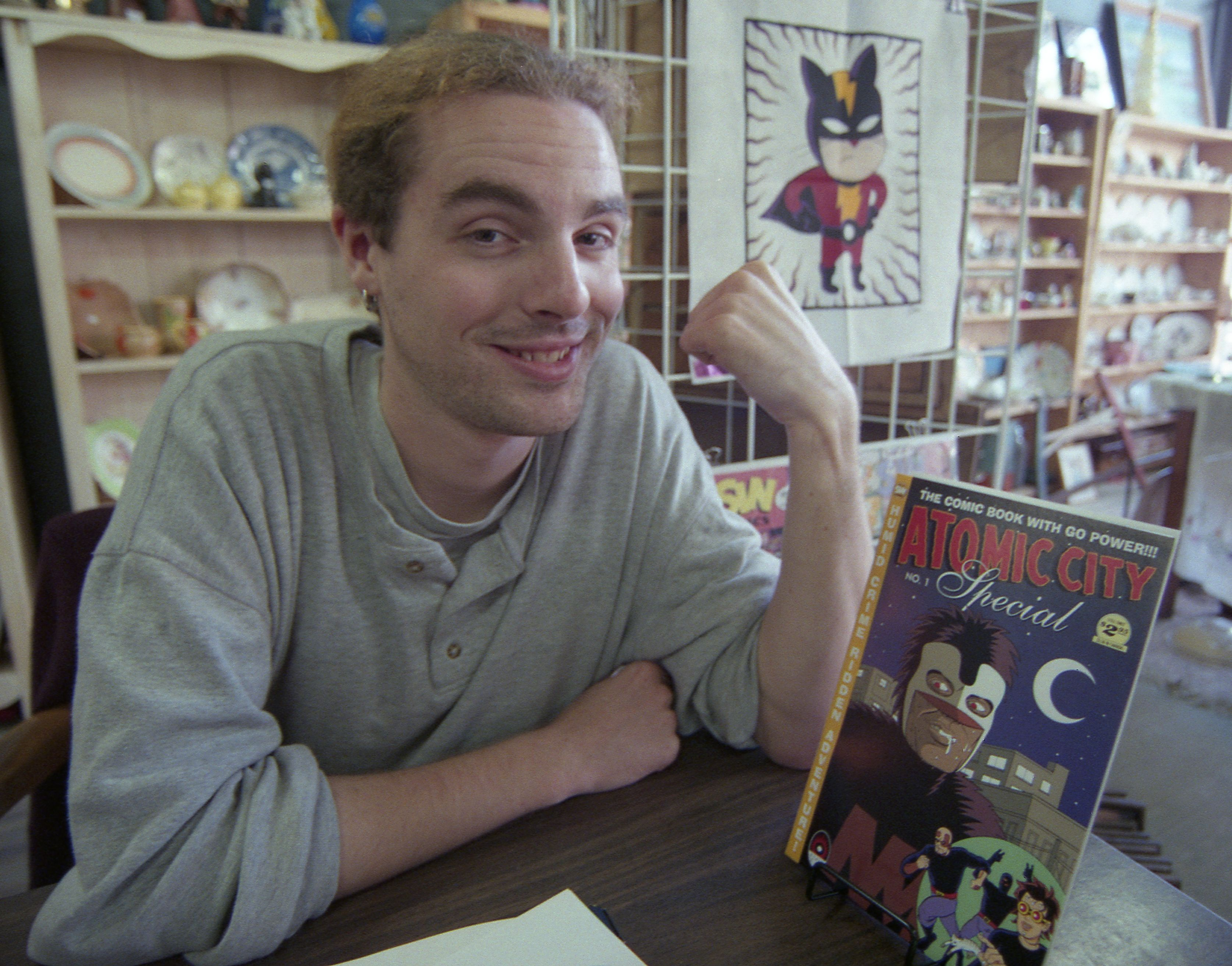 comic book artist Jay Stephens, Guelph, Ontario, 1994